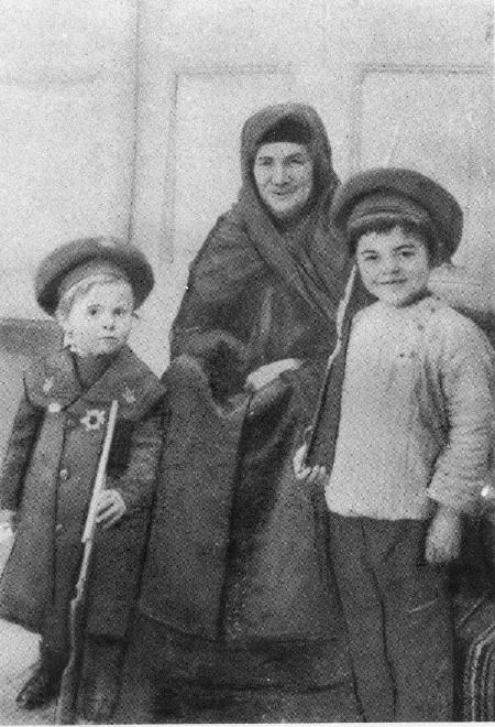 Muslim Magomayev elder (left) with mother and elder brother.